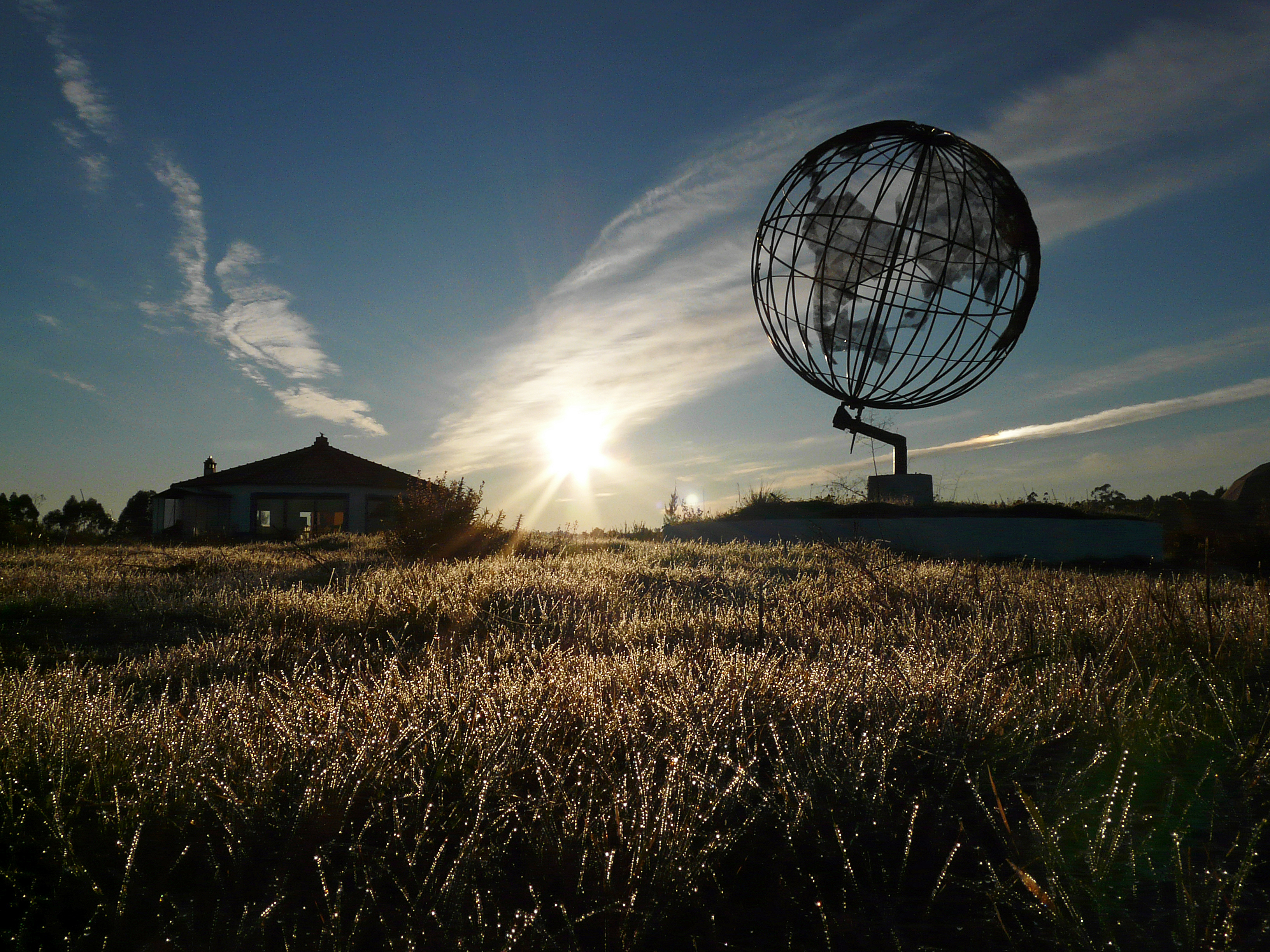 The Institute for Global Peacework